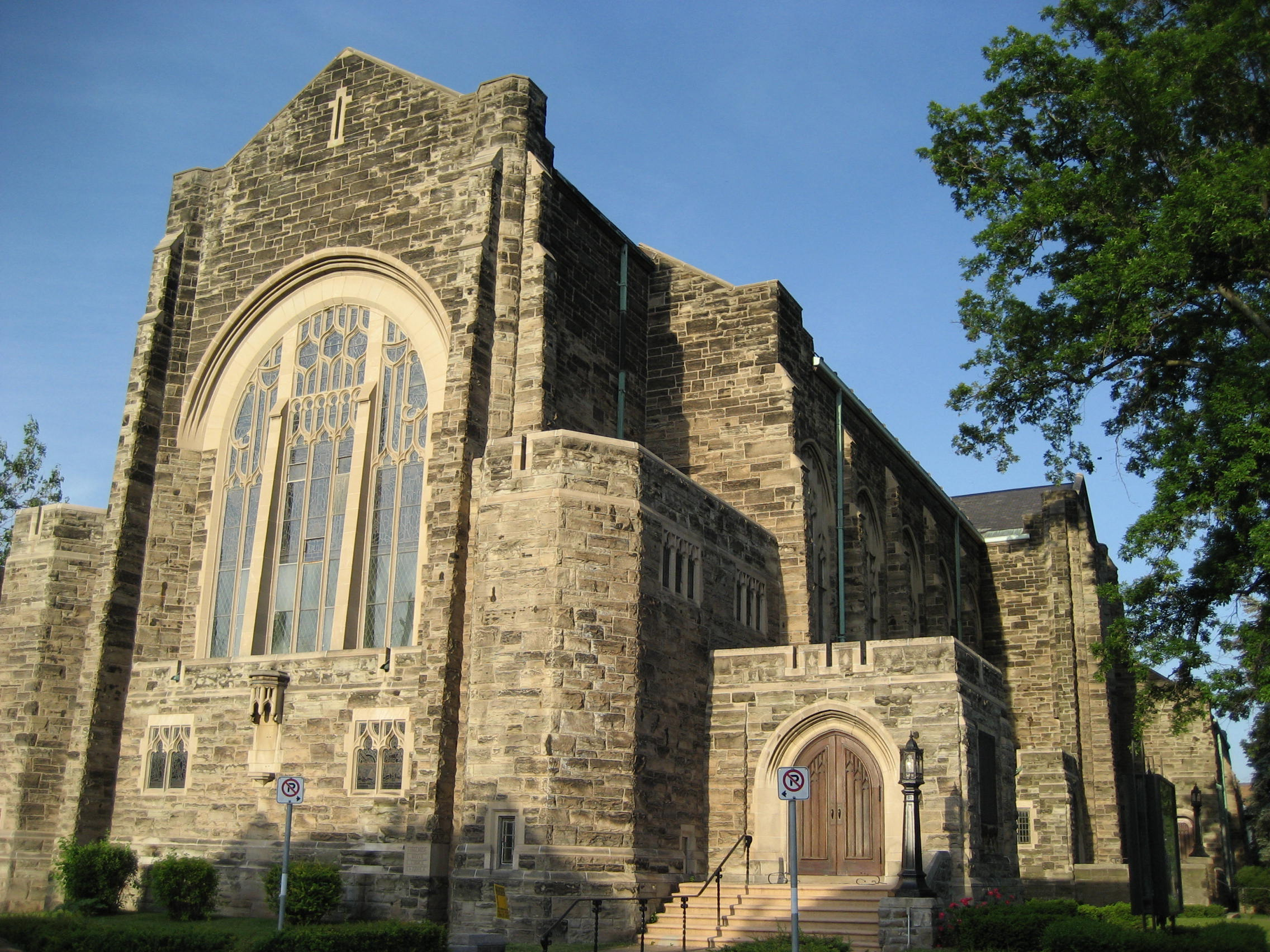 Melrose United Church, Locke Street South, Hamilton, Ontario